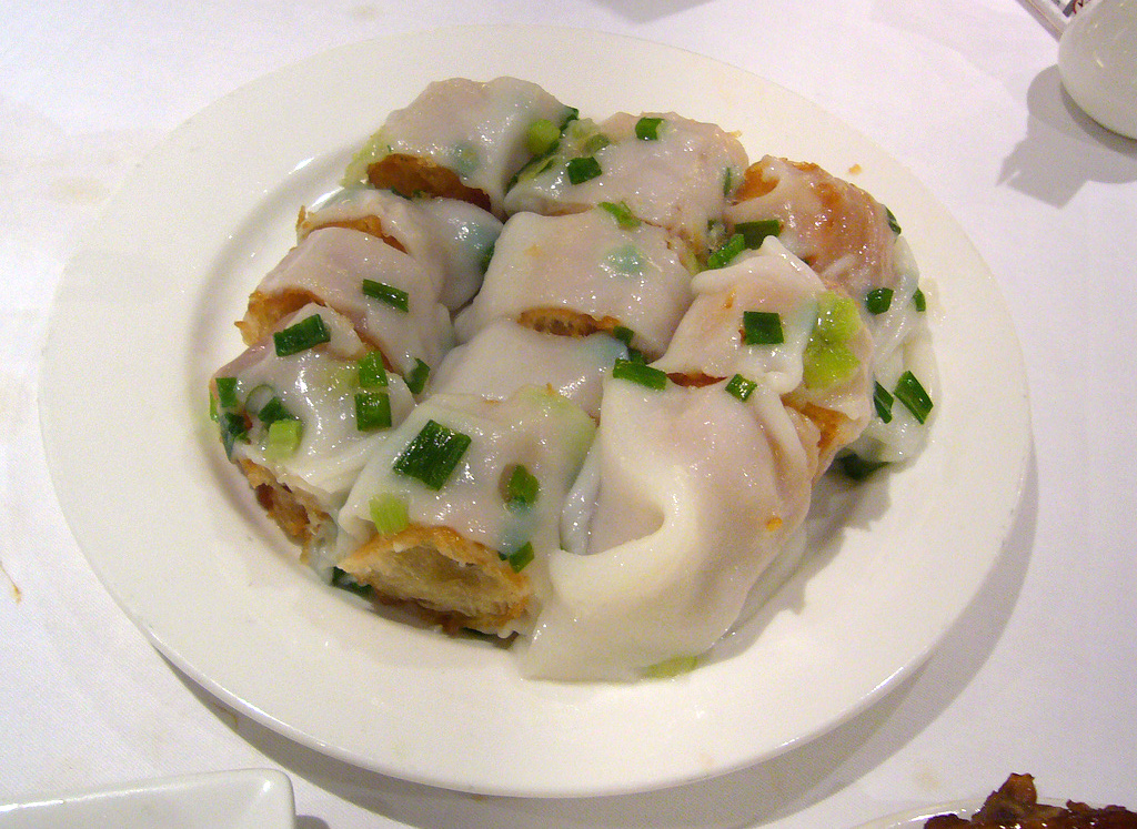 炸兩, or youtiao wrapped in rice flour sheets.